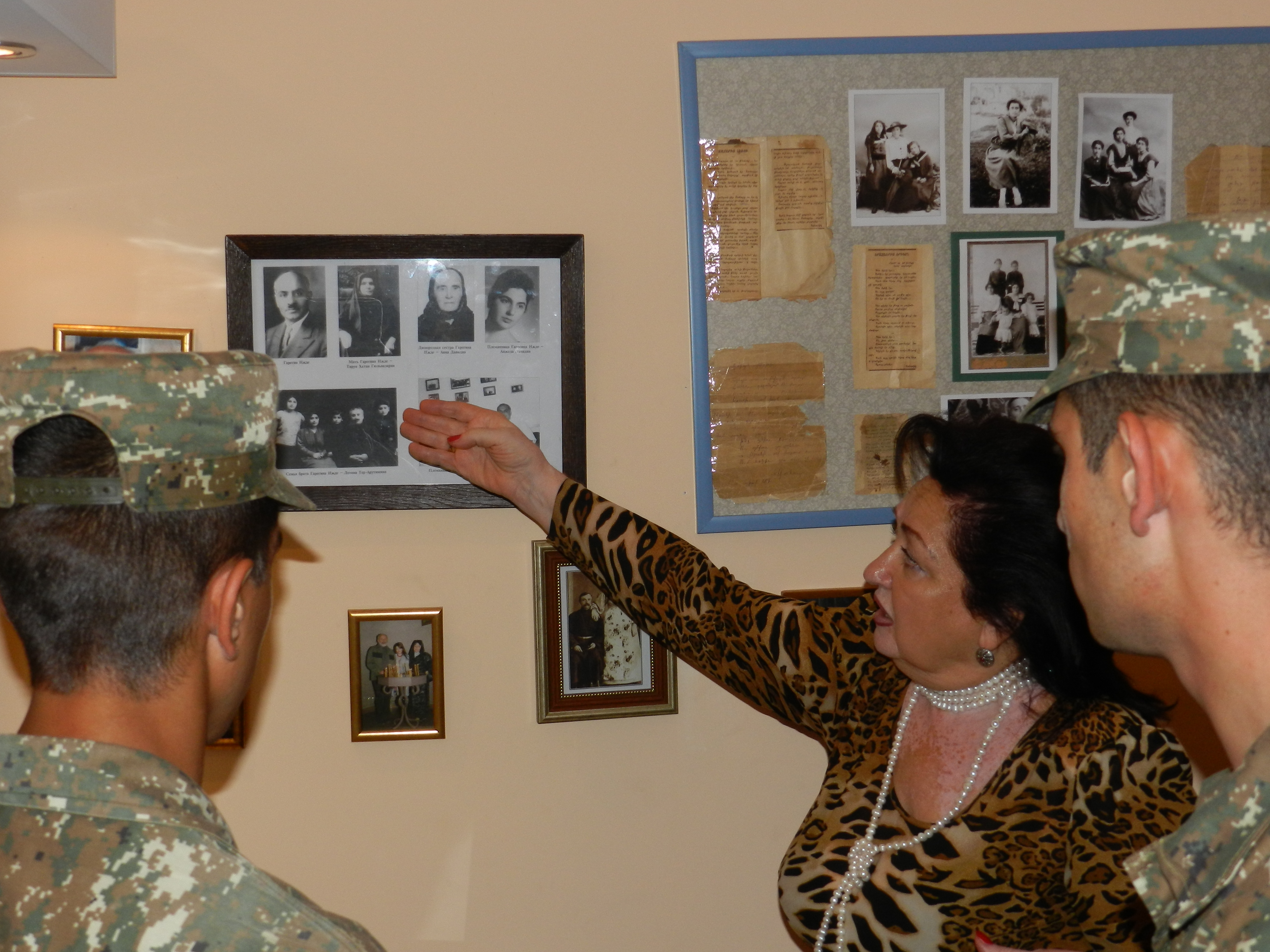 Gayane Nersisyan, Nzhdeh Museum